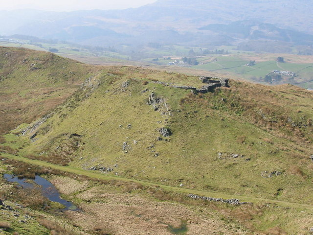 Bryn y Castell (2) Looking down on the hillfort from a nearby hillside.